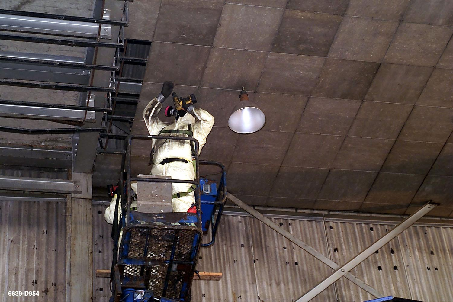 A Worker Uses a Man Lift to Remove Asbestos Ceiling Tiles in Plant 6 For more information or additional images, please contact 202-586-5251.